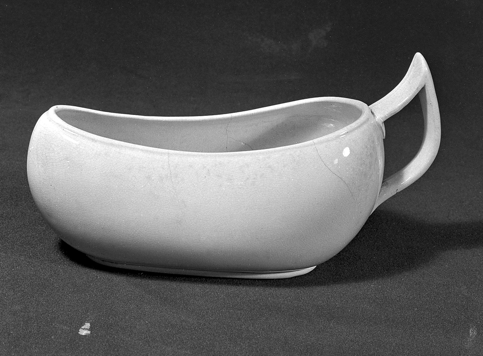 Female urinals, Bourdalou. Crellin no. 33 Wellcome Images Keywords: Museum; urinals; Museums